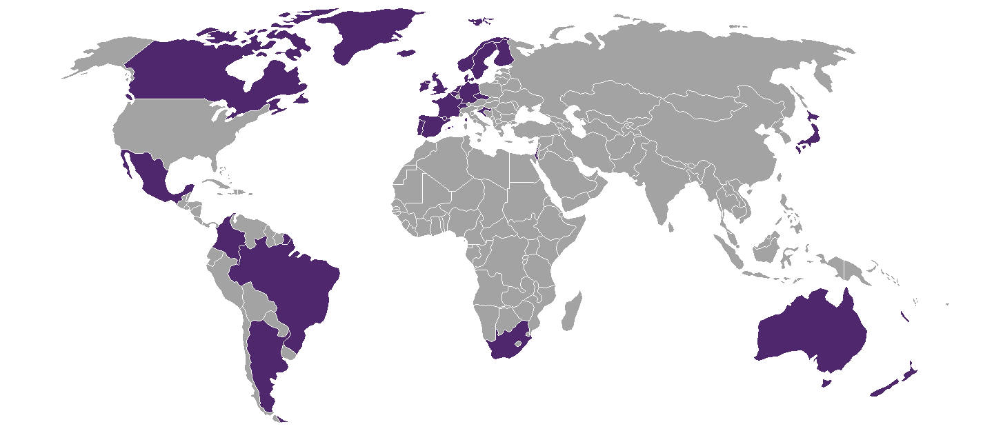 Immigration equality laws in the world. Key Recognition of Same-sex couples to immigration Unknown/Ambiguous